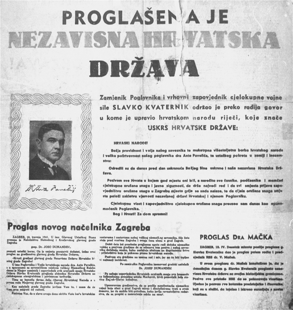 Official proclamation of the creation of an Independent Croatian State. Pictured is Ante Pavelić, leader of the Ustasa movement and head of the new Croatian state.